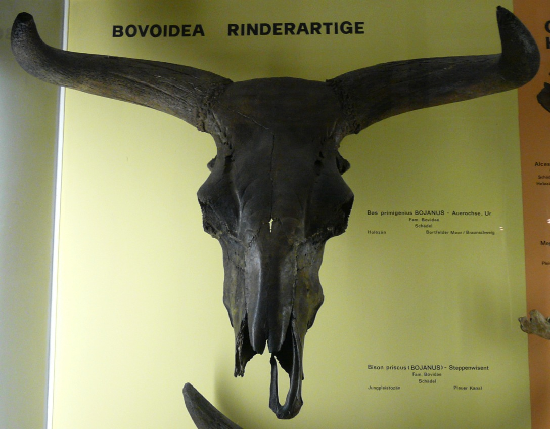 The huge skull of a Pleistocene aurochs in the Museum für Naturkunde, Berlin.